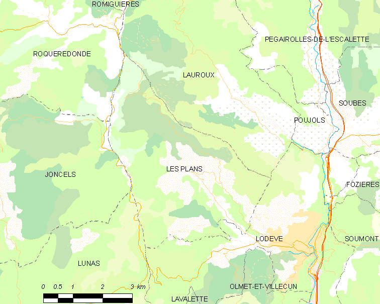 Map commune FR insee code 34205.png - Les Plans (Hérault)